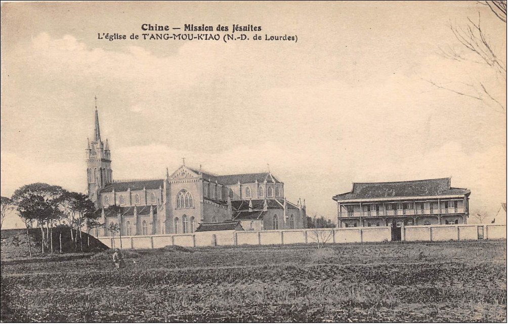 Tangmuqiao Church, Pudong, Shanghai